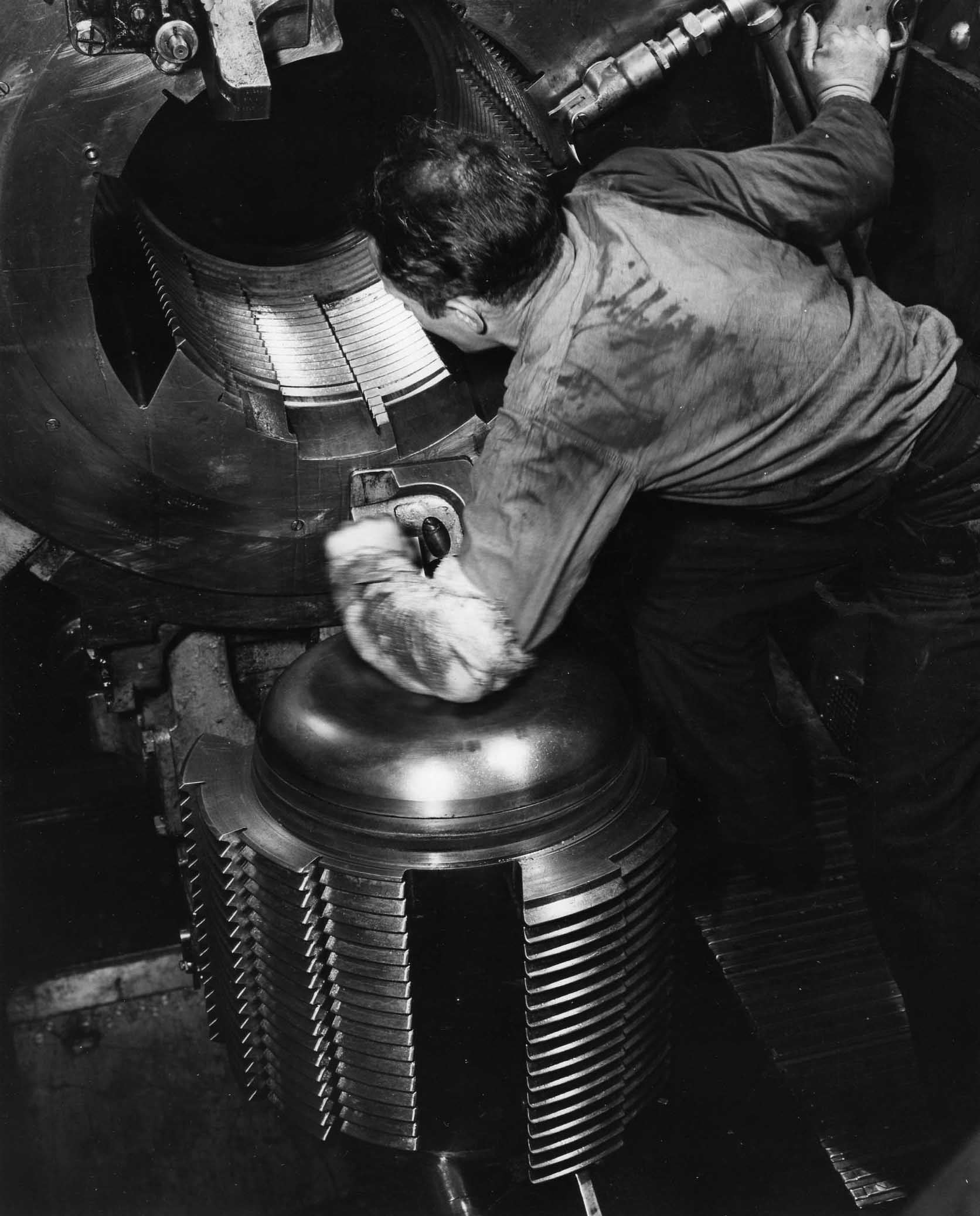 Looking Into The Breech – This gunner on battleship USS Alabama (BB-60) looks through the breech of one of the 16-inch Mark 6 guns. His left elbow rests on the “mushroom” of the gun, which he keeps clean by rubbing it with the towel wrapped around his arm.